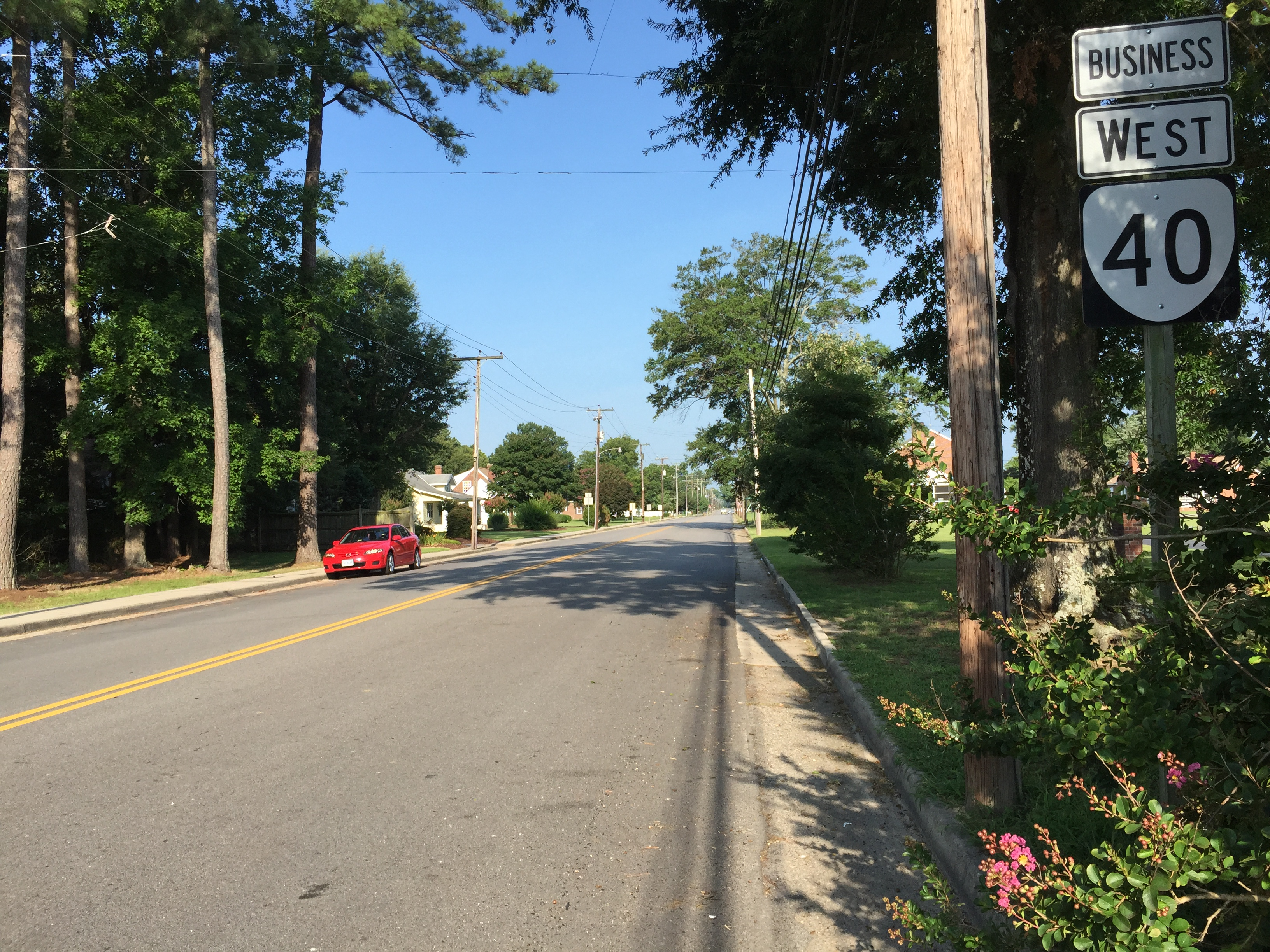 View west along Virginia State Route 40 Business (Lee Avenue) at U.S. Route 301 (Blue Star Highway) in Stony Creek, Sussex County, Virginia